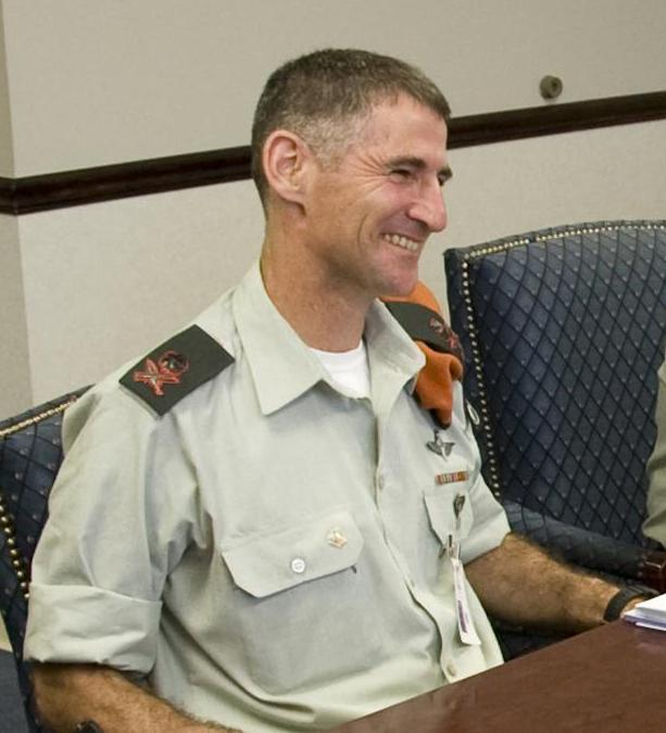 Major General Yair Golan - the head of the Home Front Command (Israel)